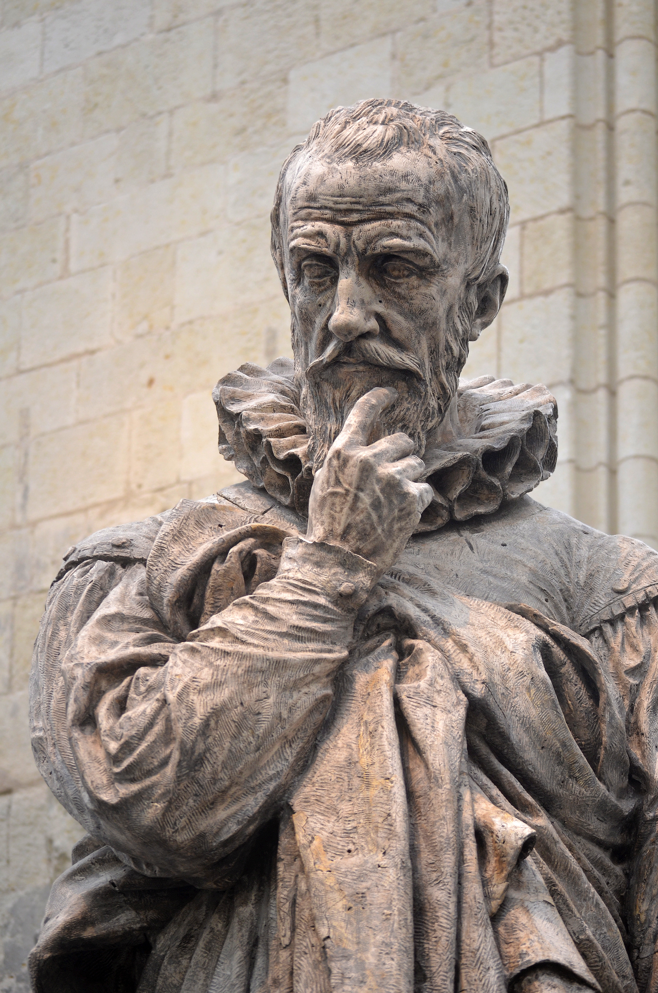 Ambroise Paré by David d'Angers. Exhibited in David d'Angers gallery, Angers, France